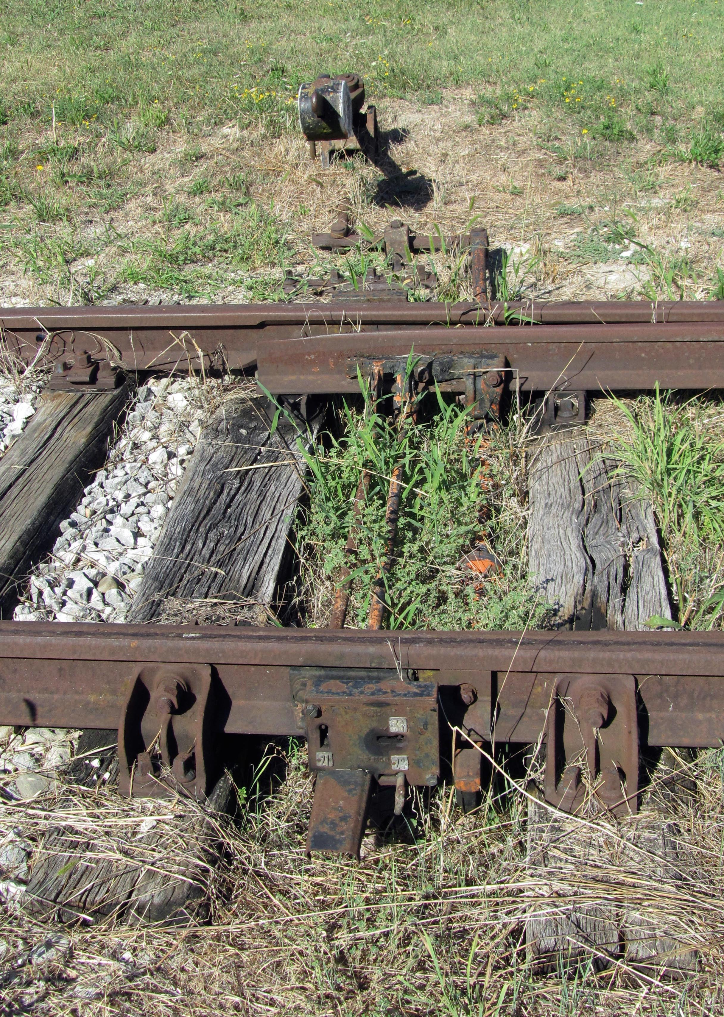 railroad switch mechanical clamping mechanism, FS44 type, 3 keys